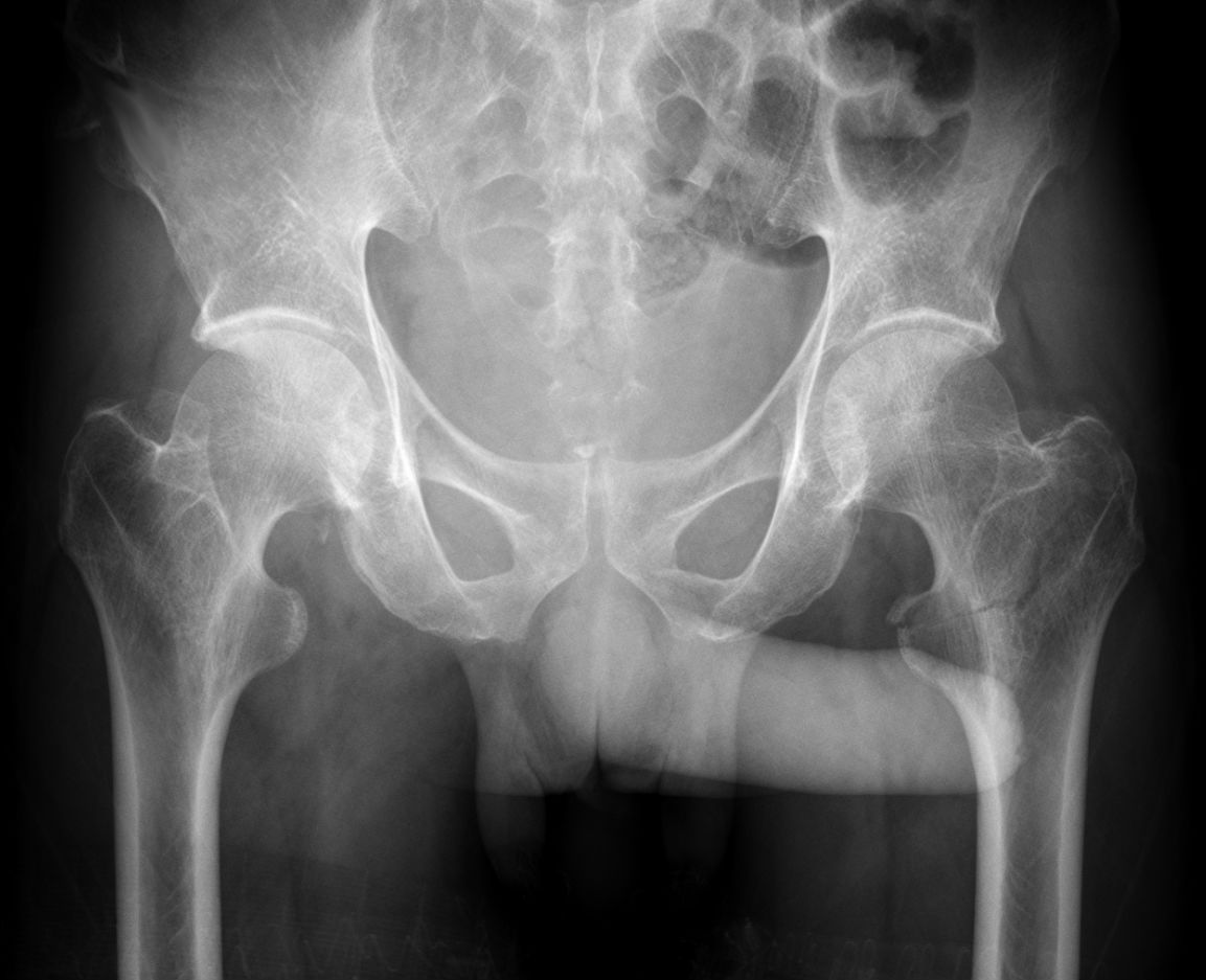 Positive "John Thomas sign" or "Throckmorton sign" displayed by a patient who sustained a pertrochanteric fracture on the left. This radiography sign occurs when the patient's penis points towards the injured side. Notice that "John Thomas sign" is joke, even though this image is not(!) a fake.